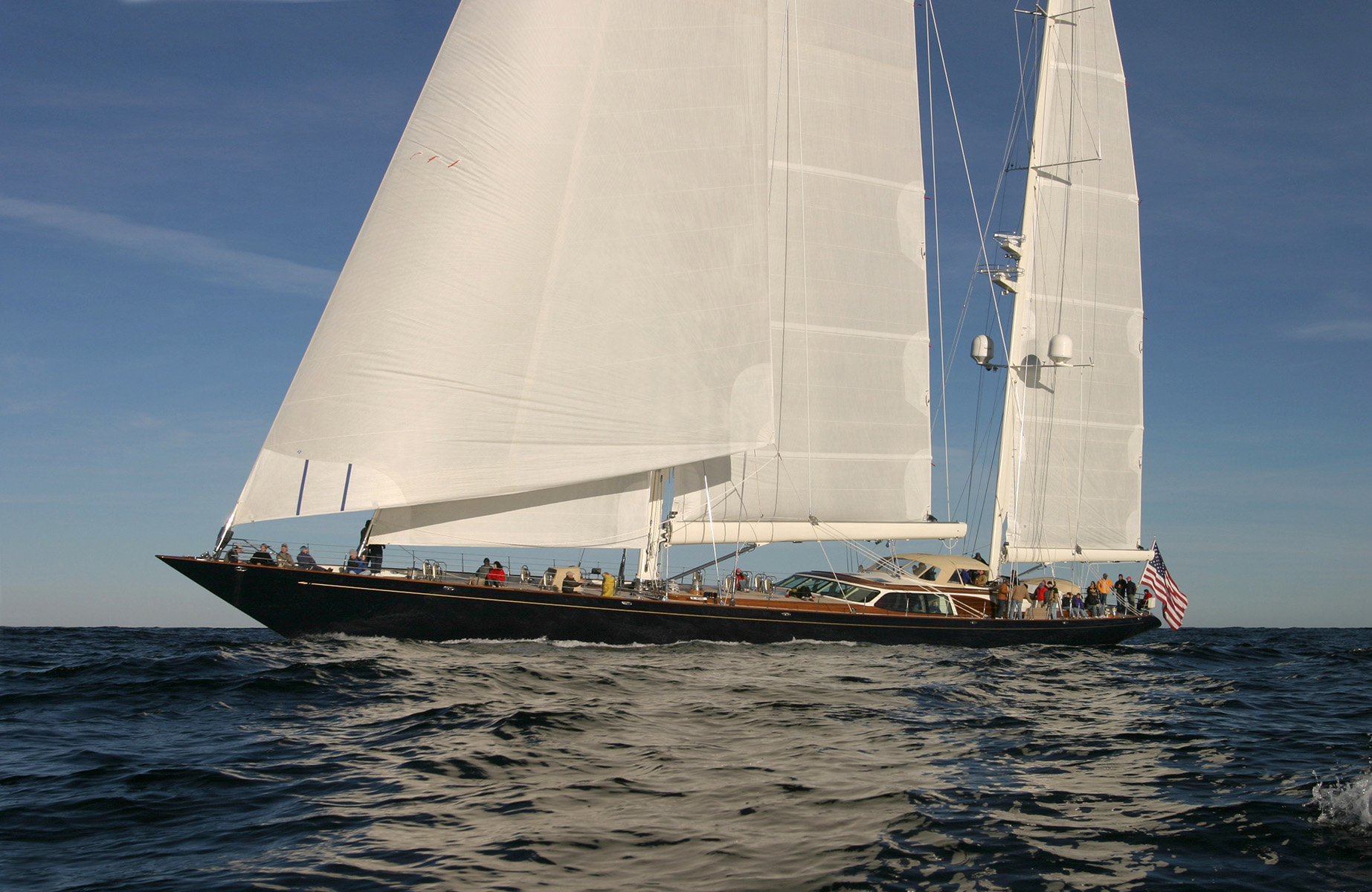 Scheherazade: 157' Bruce King Design built by Hodgon Yachts, East Boothbay, Me. November 23, 2003. ©Billy Black 401.683.5500